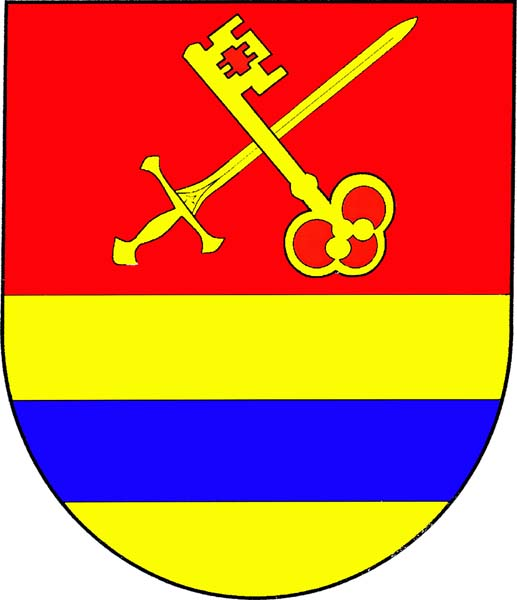 Municipal coat of arms of Dříteč village, Pardubice District, Czech Republic.